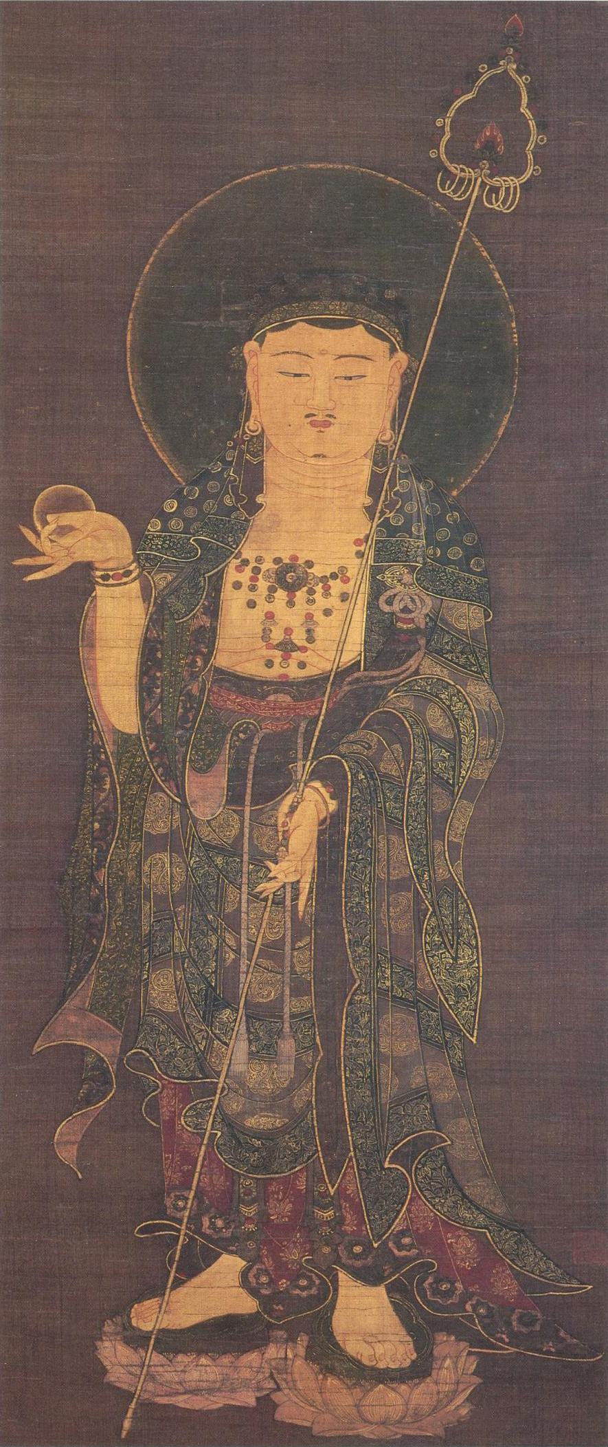 Ksitigarbha, Tokugawa Art Museum, Nagoya, Japan